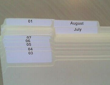 A small slice of my 43 folders I use for GTD task management.